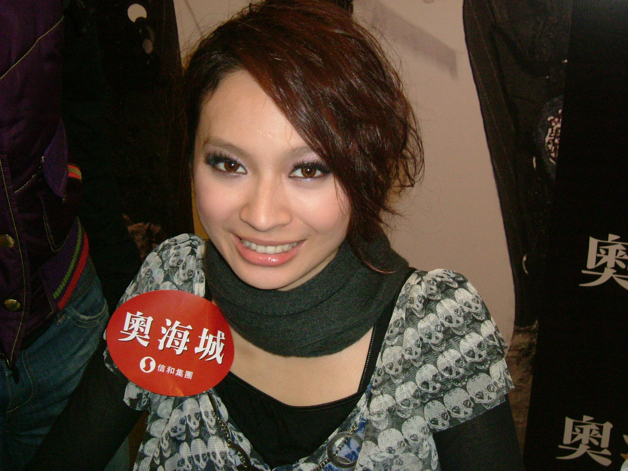 Faye (飛兒 or 詹雯婷) @ Olympian City Bân-lâm-gú: Tsiam Bûn-tîng tī Ò-hái-siânn. 詹雯婷佇奧海城。